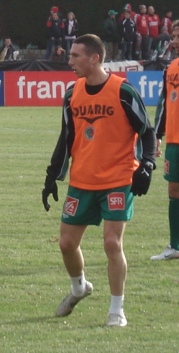 Morgan Amalfitano (Sedan)